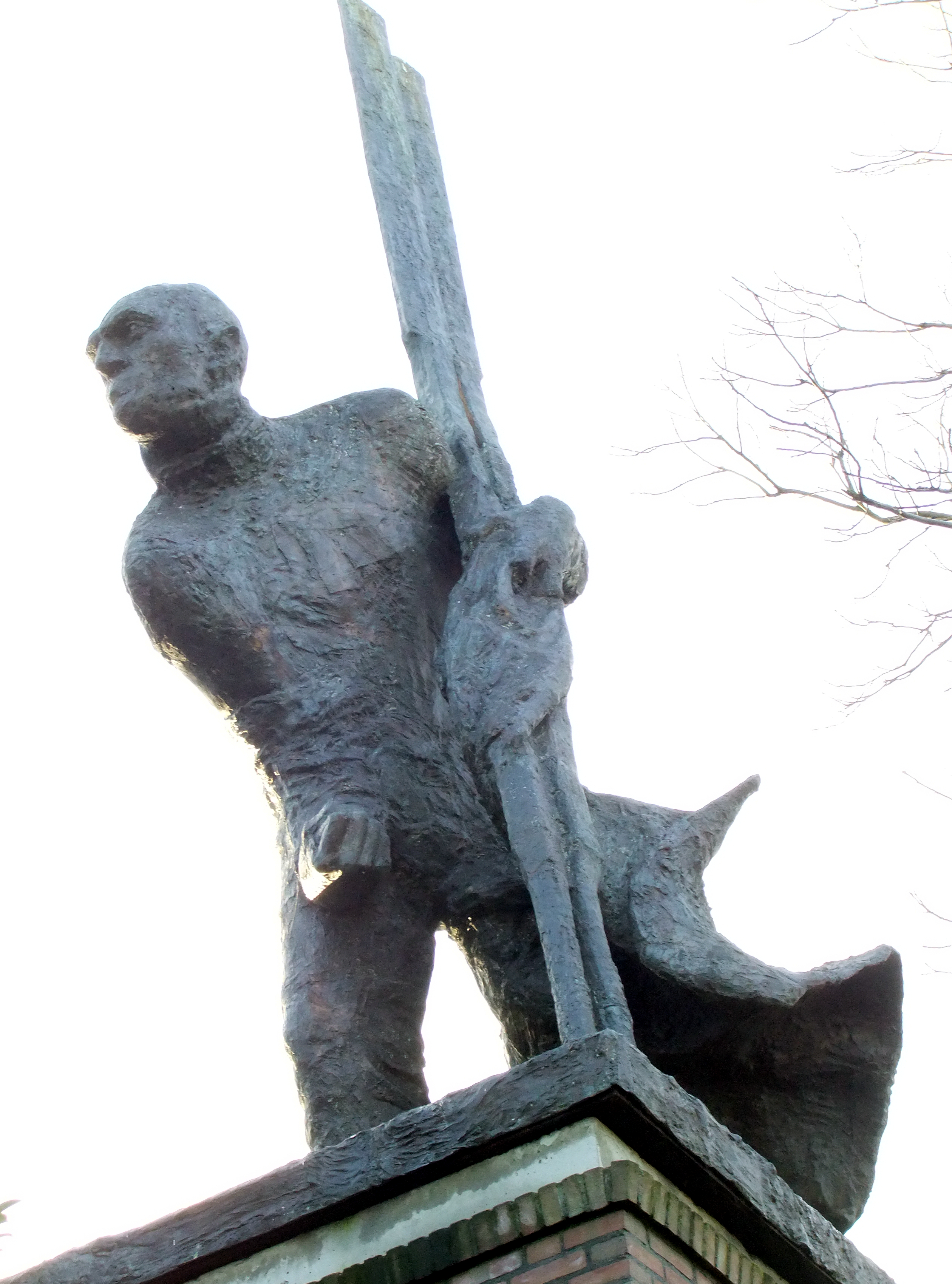 Sculpture De Roeier by Willem den Ouden (1995) Zennewijnen The Netherlands